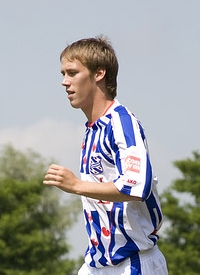 Michal Švec, association football player from the Czech Republic